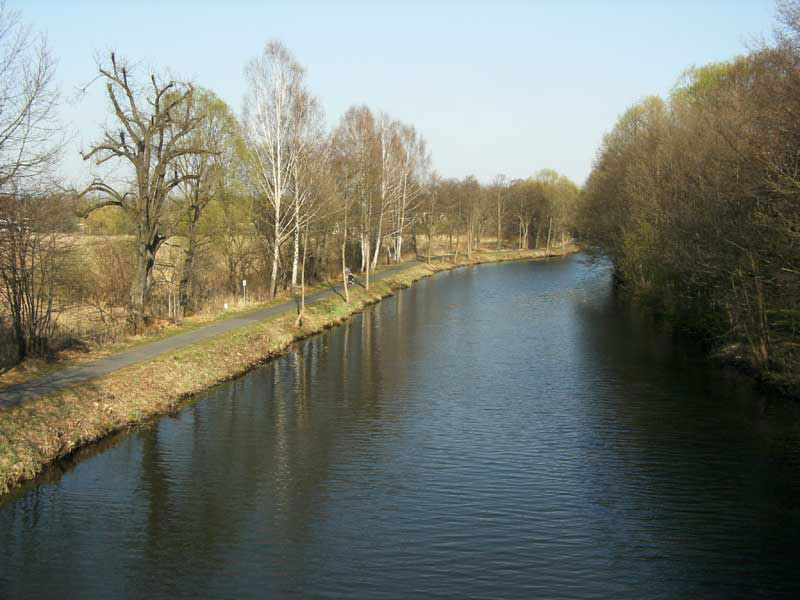 Finowkanal - northern way near Finowfurt